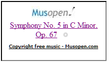 blog from